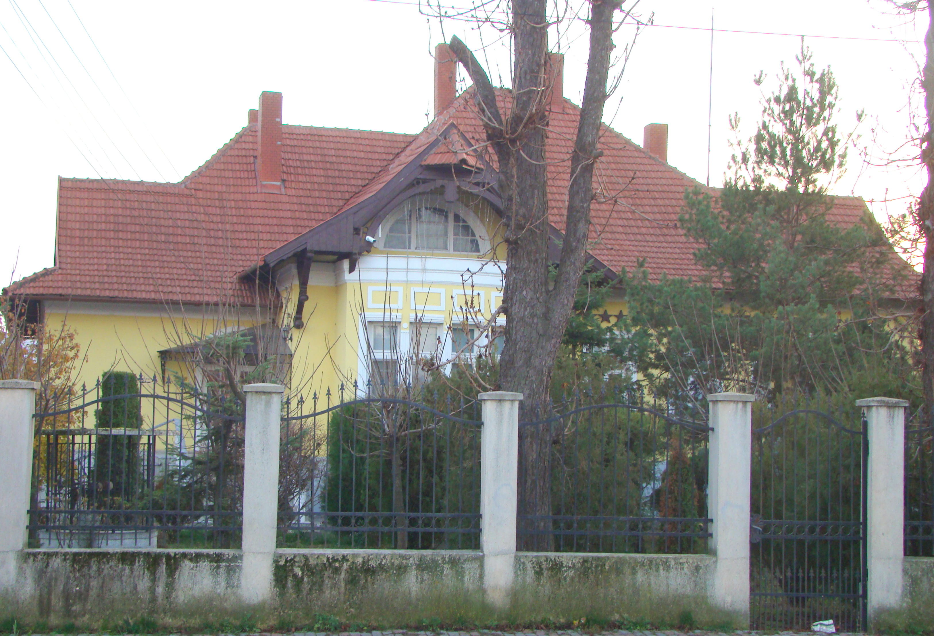 Zichy mansion in Lugașu de Jos, Bihor county, Romania